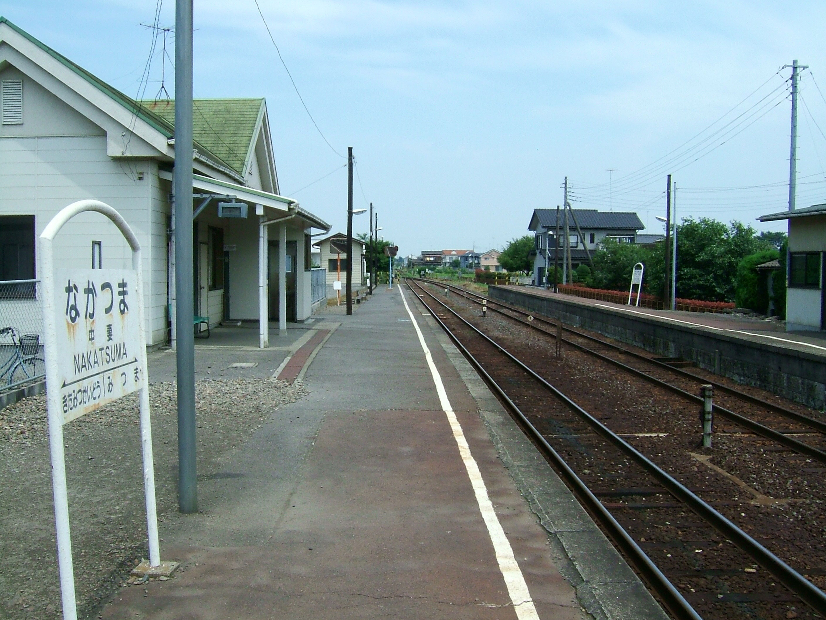 Nakatsuma Station platform (Kanto Railway Jōsō Line)